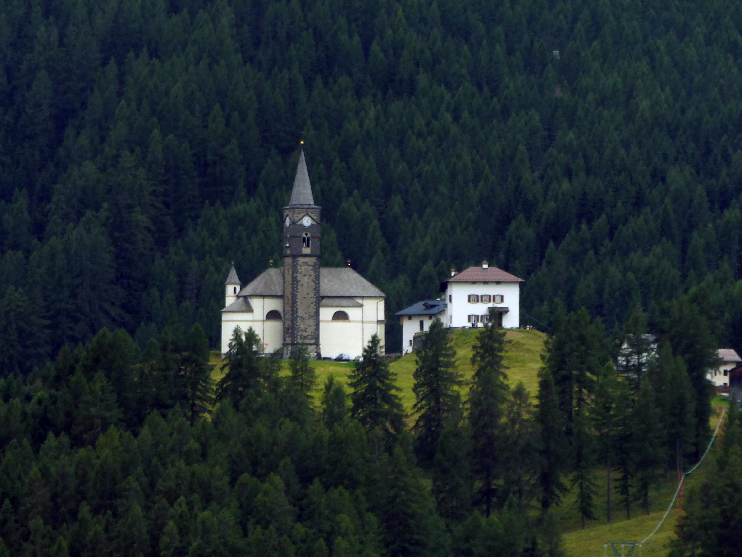 The church of Laste (Rocca Pietore, BL, Italy) as seen from the regional street 48 of the Dolomites